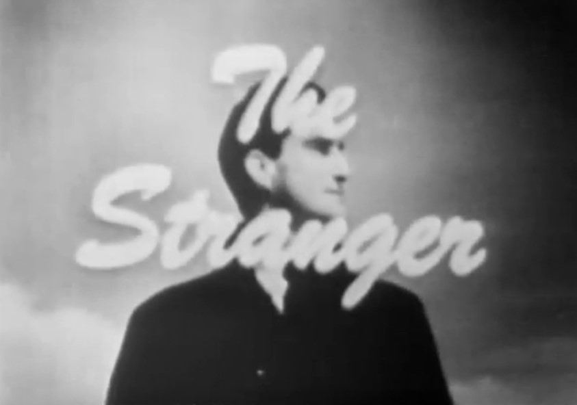 Card TS